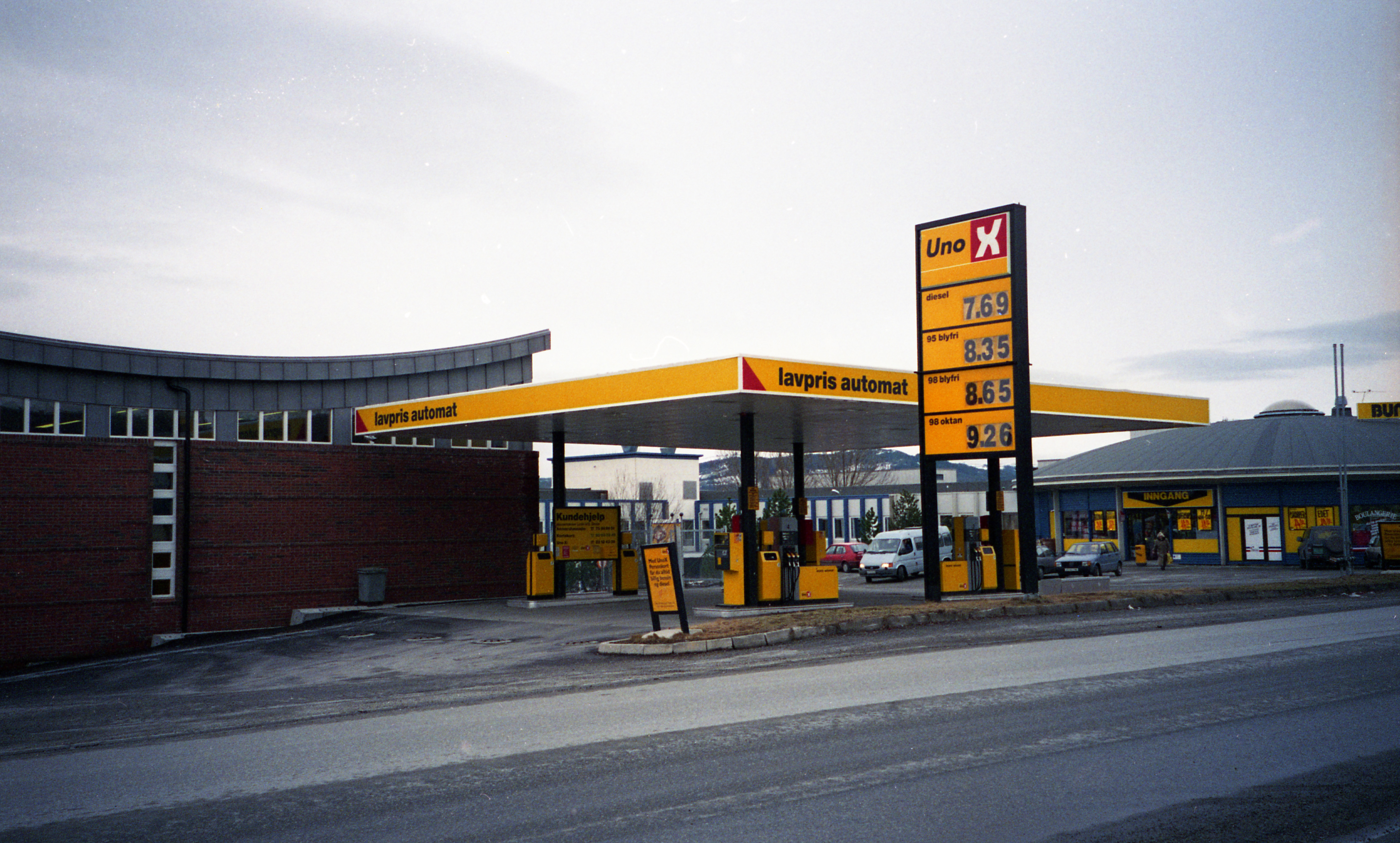 Format: Fotonegativ Film: Kodak Gold 200 Dato / Date: 23 Februar 1998 Fotograf / Photographer: Byantikvaren Sted / Place: Uno-X, Håkon Magnussons gate, Lade Google Street View: Håkon Magnussons gate Wikipedia: Uno-X Automat Eier / Owner Institution: Trondheim byarkiv, The Municipal Archives of Trondheim Arkivreferanse / Archive reference: Film 1 Negativ - F21418